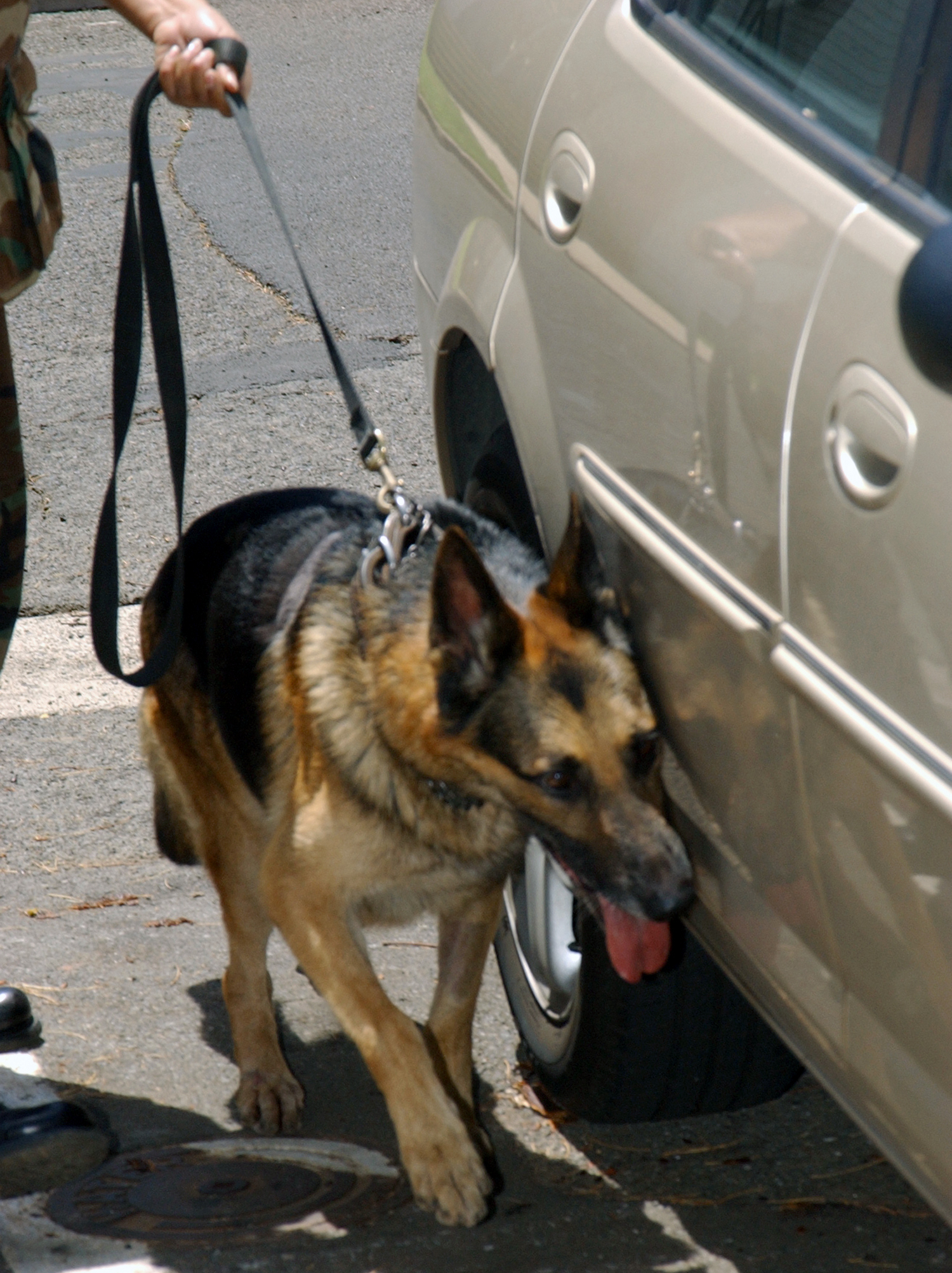 Pearl Harbor, Hawaii (May 8, 2003) – Chico, a military working dog, leads his trainer around a vehicle during a daily training exercise. Military working dogs play a vital role in the U.S. Navy's Force Protection Program. U.S. Navy photo by Journalist 3rd Class Sunday E. Williams. (RELEASED)